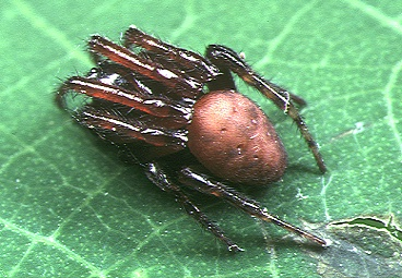 male Acusilas coccineus from Okinawa.